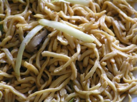 Yi mein Chinese noodle